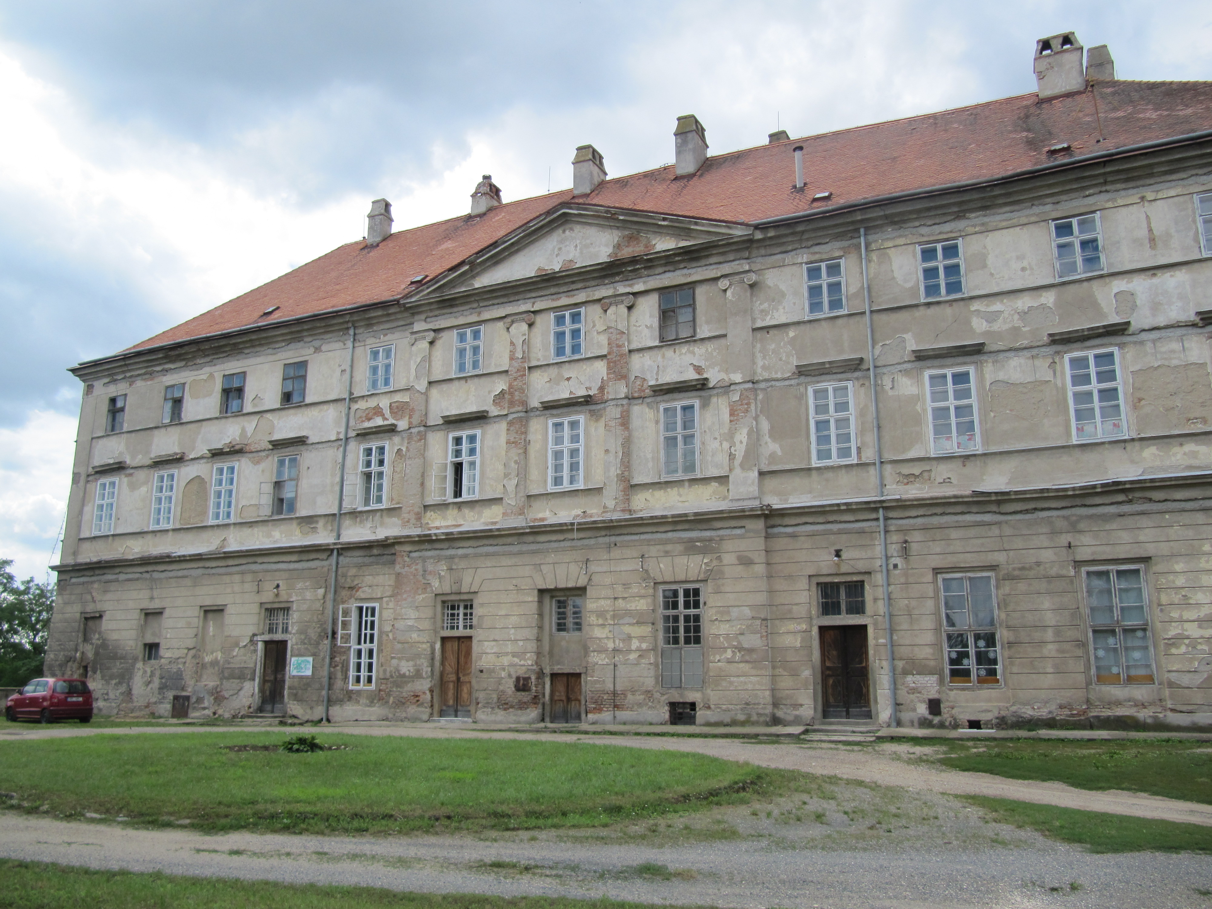 Drnholec in Břeclav District, Czech Republic. Castle.